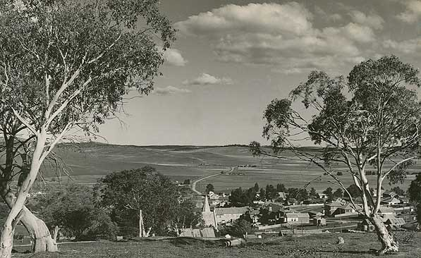 View of Adaminaby Dated: No date Digital ID: 12932-a012-a012X2448000063 Rights: We'd love to hear from you if you use our photos. Many other photos in our collection are available to view and browse on our website using Photo Investigator.